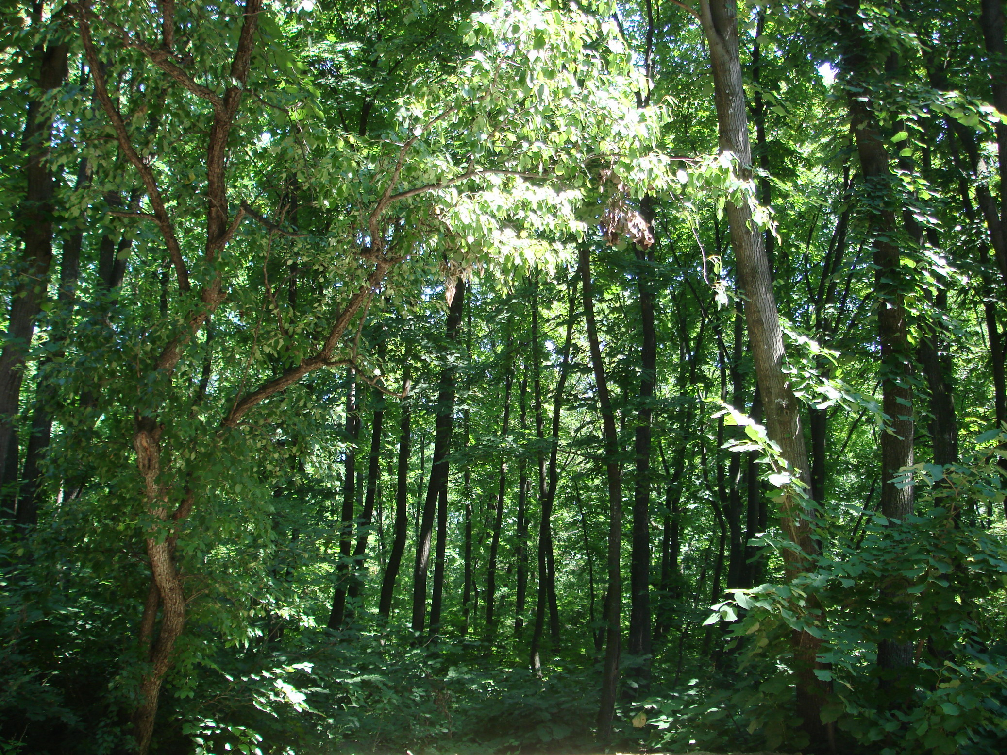 Forest in Ialoveni County, Moldova